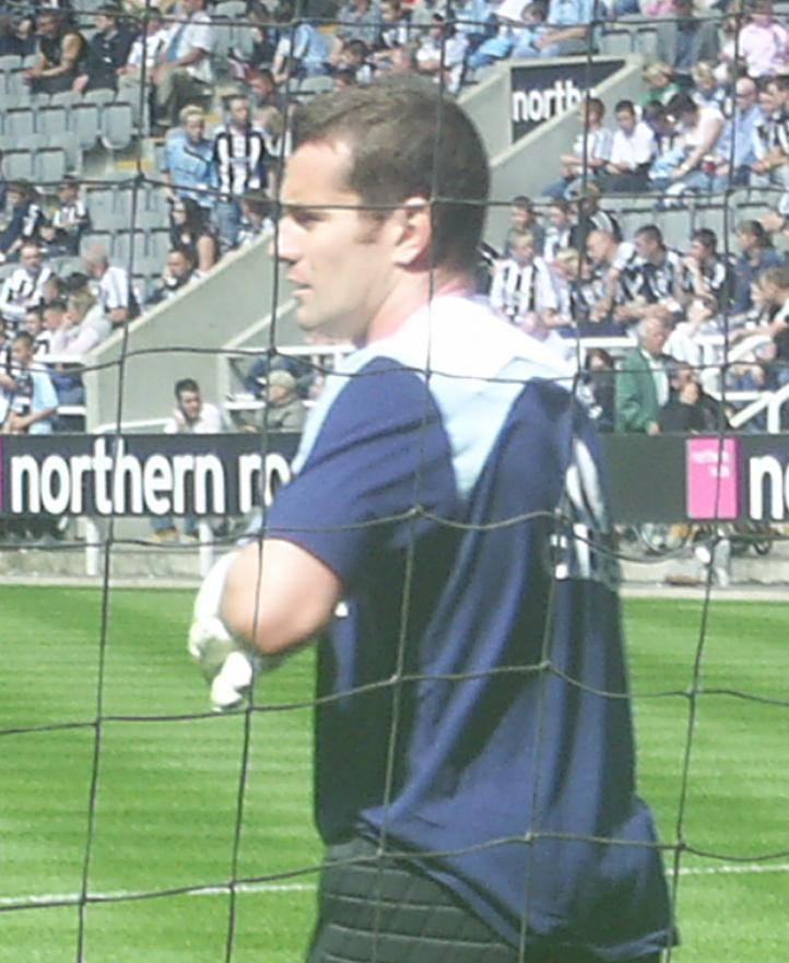 Irish footballer Shay Given warming up before a match.